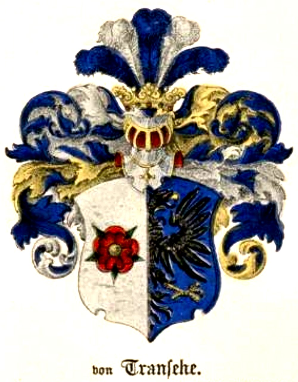 Coat of Arms of Transehe family